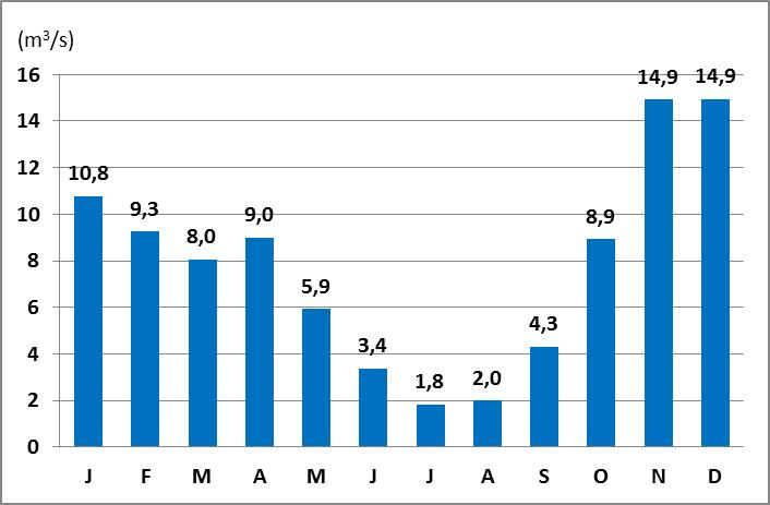 Average monthly discharges of Reka River at the gauging station Cerkvenikov mlin in 1981–2010